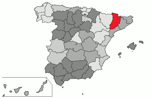 ES: Provincia de Lérida EN: Province of Lleida Based in: Image:ProvPont.jpg Source: Designed by Leoplus. Original picture, designed by Sobreira.